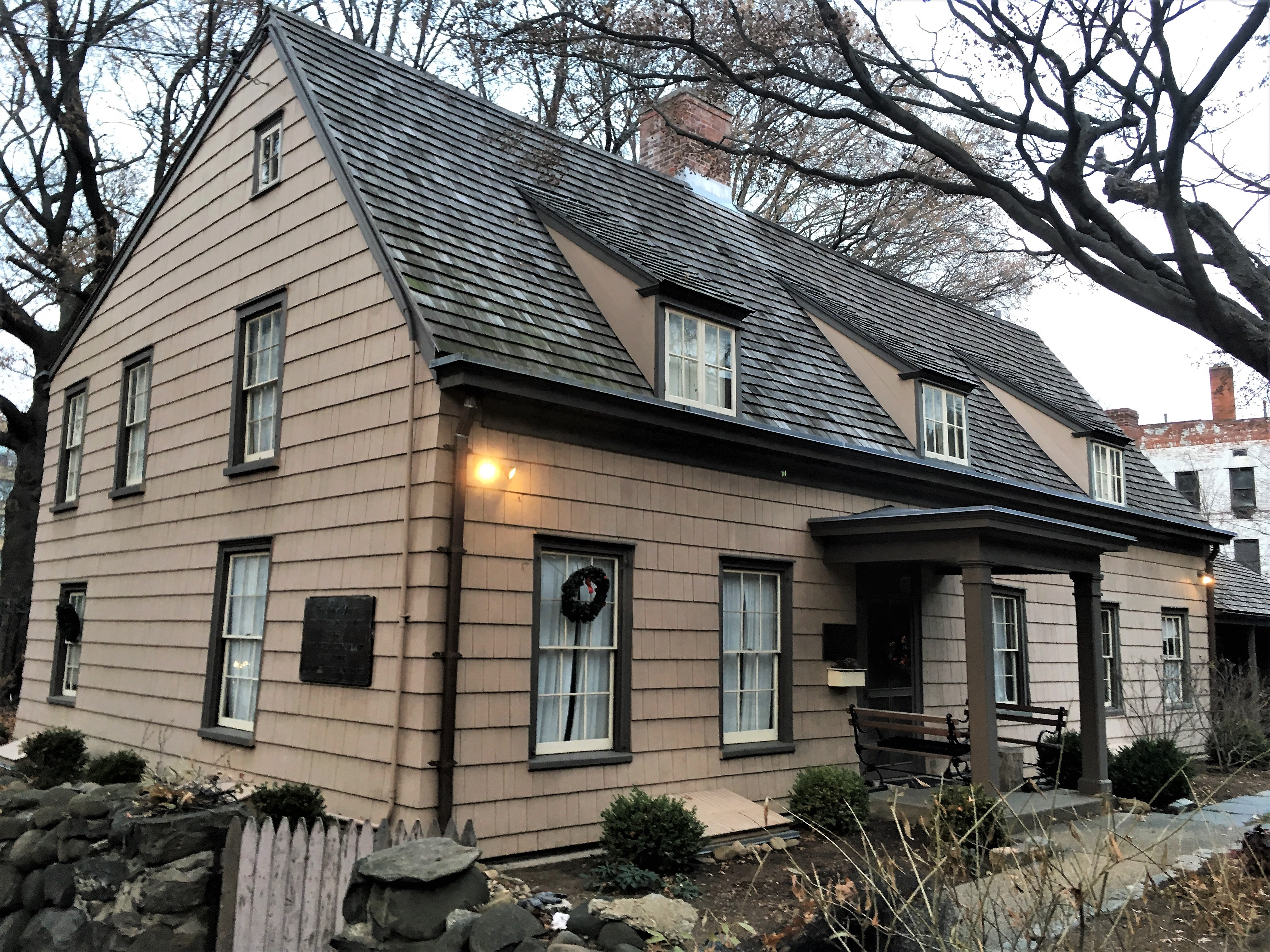 John Bowne House, historic home in Flushing, Queens, New York City.